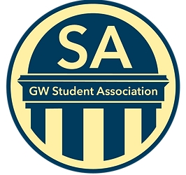 GW Student Association logo which may be found on their website.